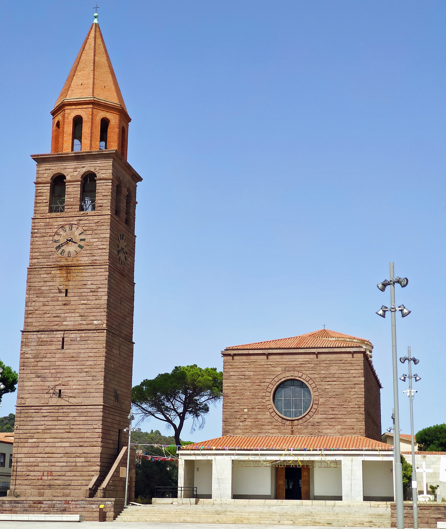 The San Ponziano church in Carbonia, Sardinia, Italy